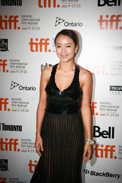 Jeon Do-yeon at TIFF 2010